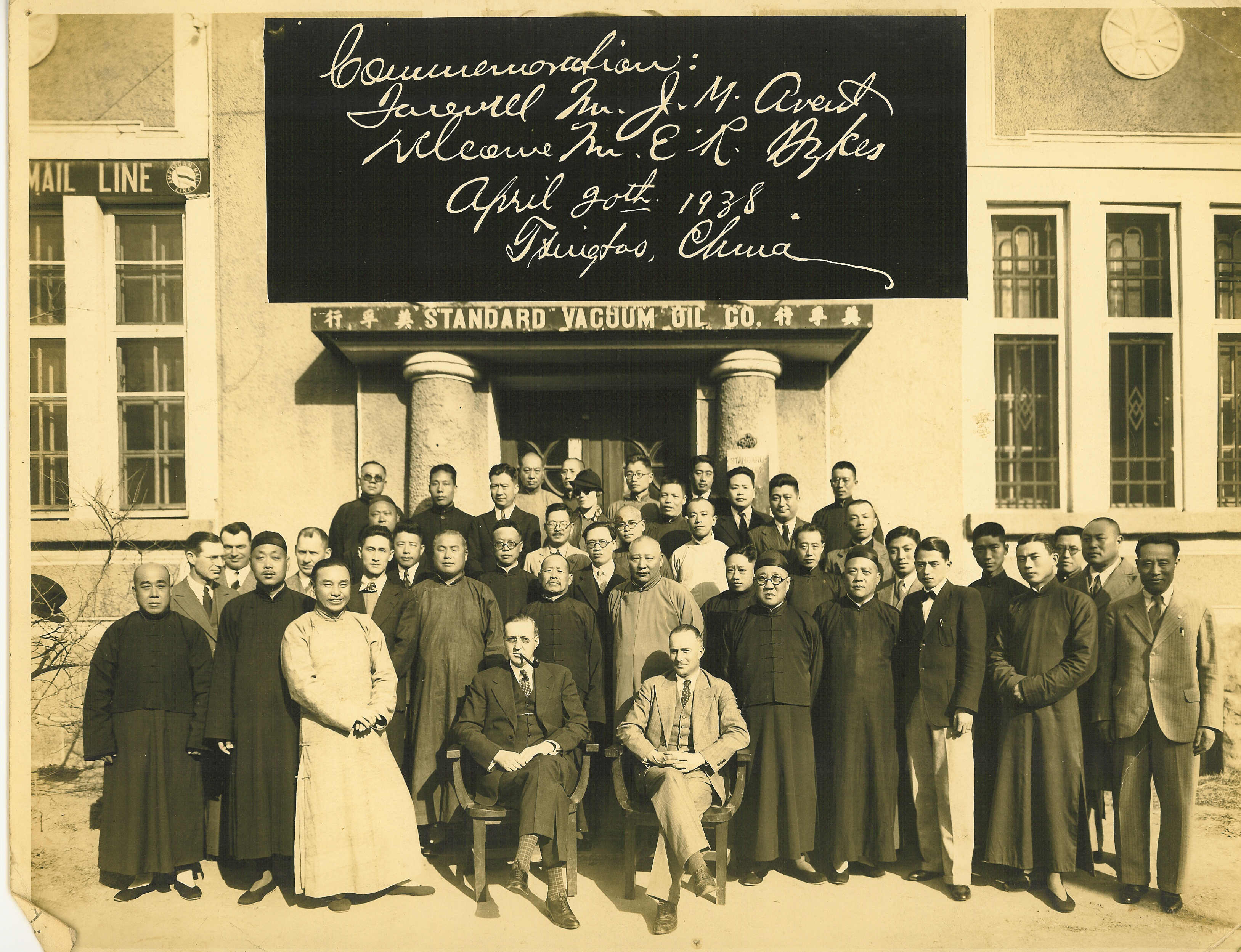 Photograph of the farewell of James M. Avent (seated right) on his transfer as branch manager from the Standard Oil Tsingtao Office. Welcome to E. R. Dykes (seated left), new branch manager.